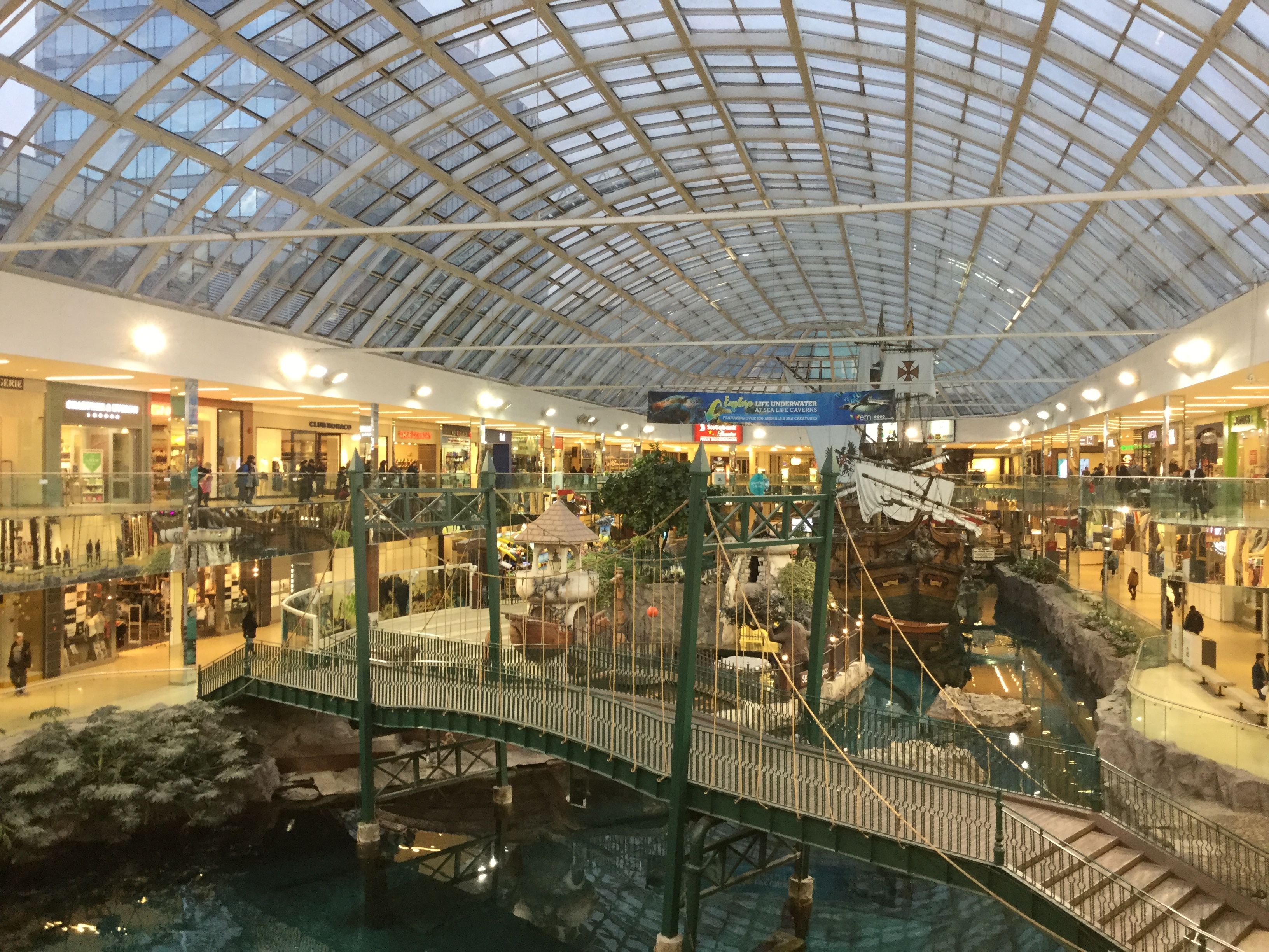 Sea Life Caverns wing, 2017